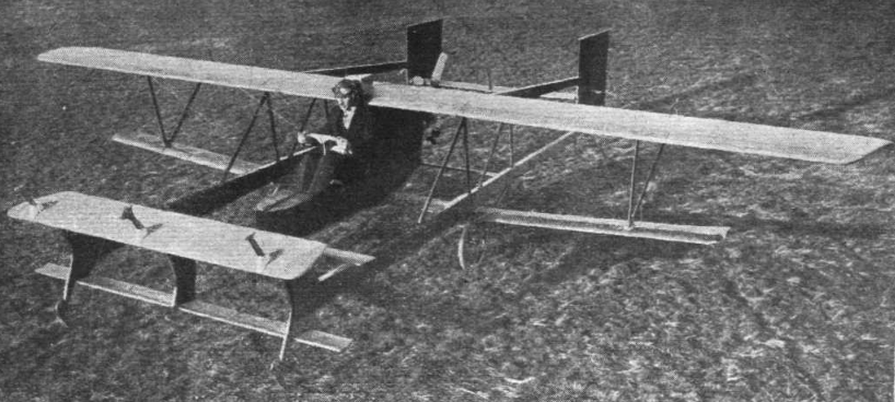 Budig motorglider overview